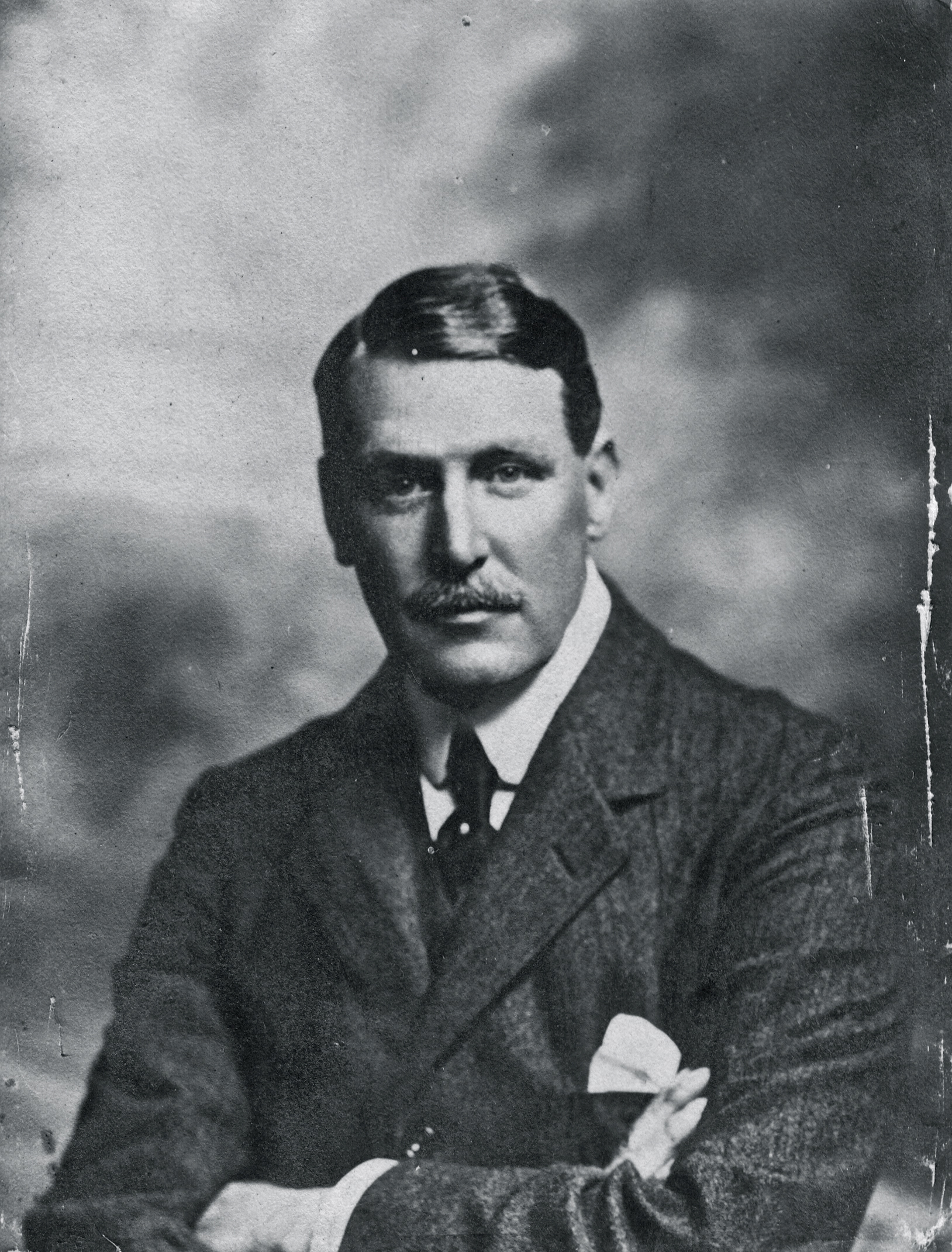 Former England football captain and president of the law society